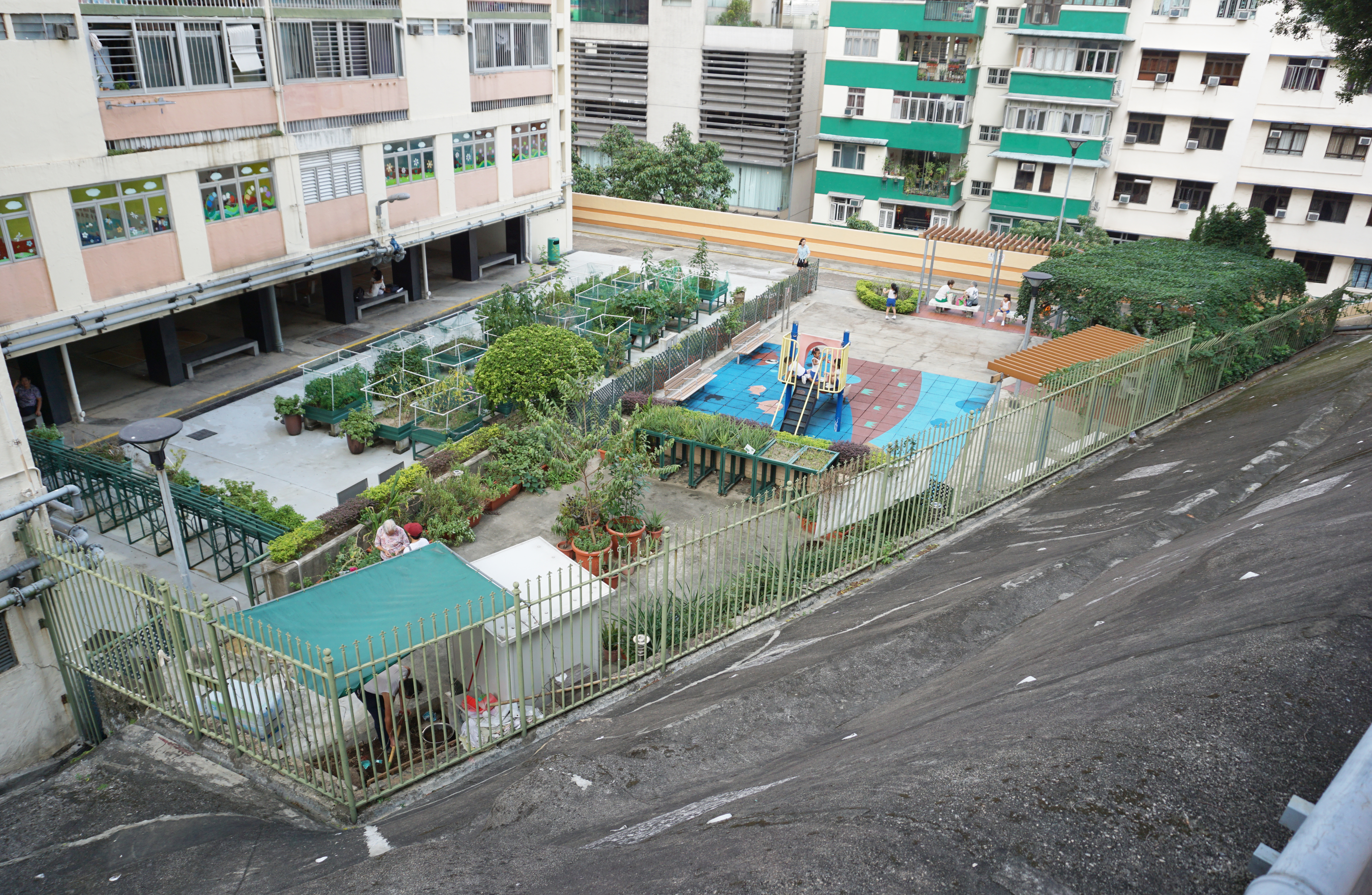 Lok Man Sun Chuen in To Kwa Wan, Hong Kong.